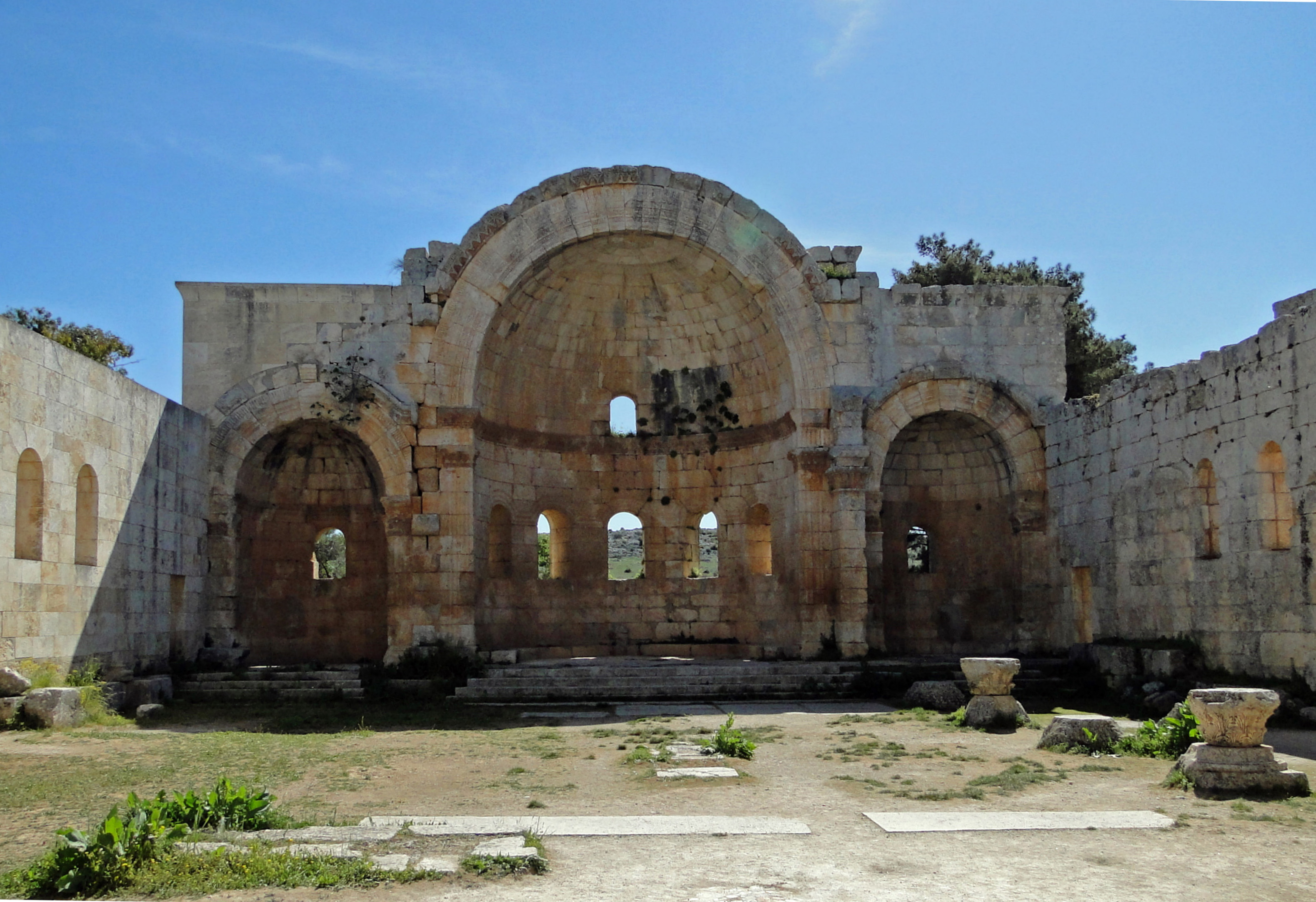 Eastern Basilica of the Church of Saint Simeon Stylites, Syria